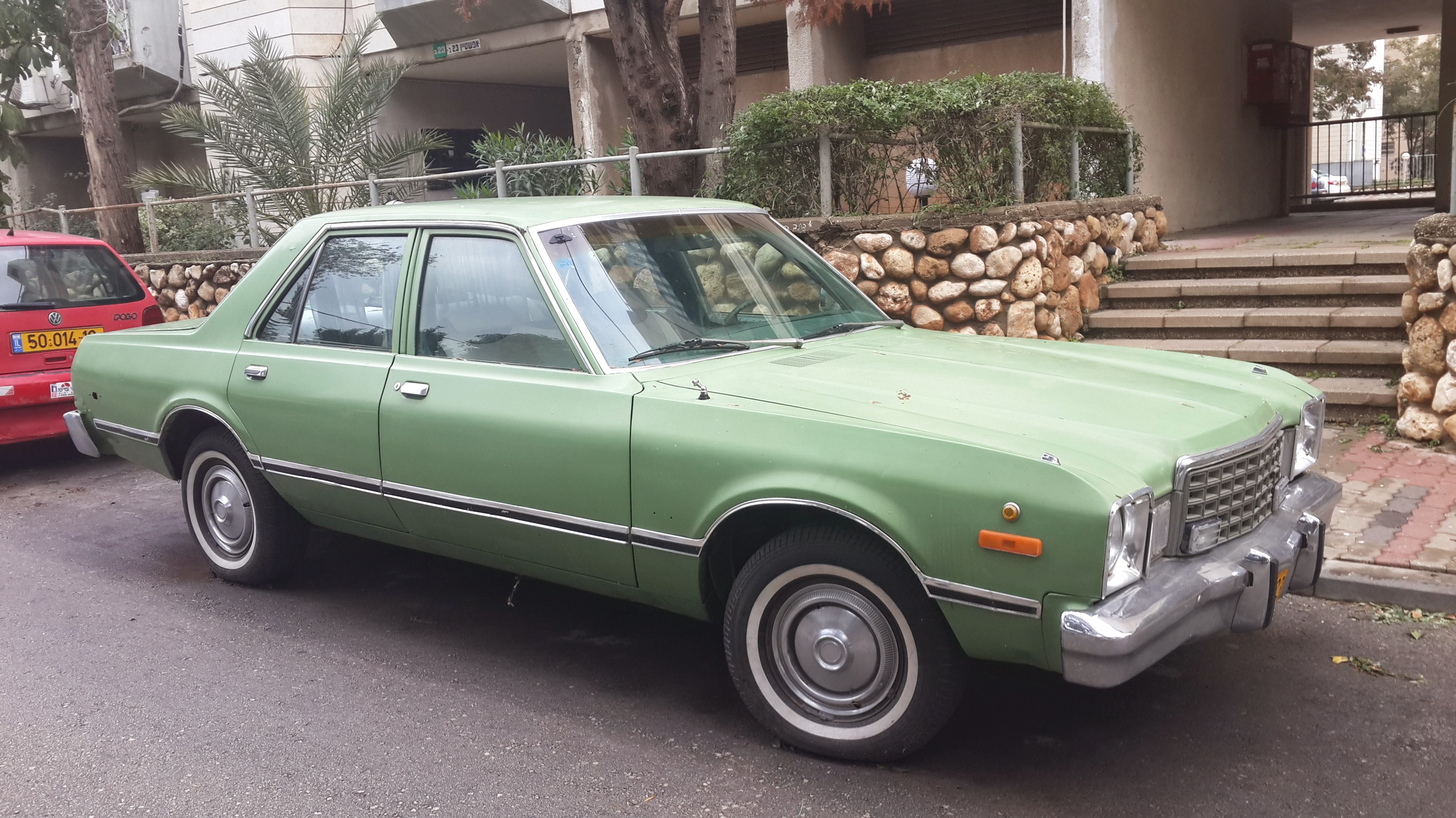 Plymouth Volare in Israel